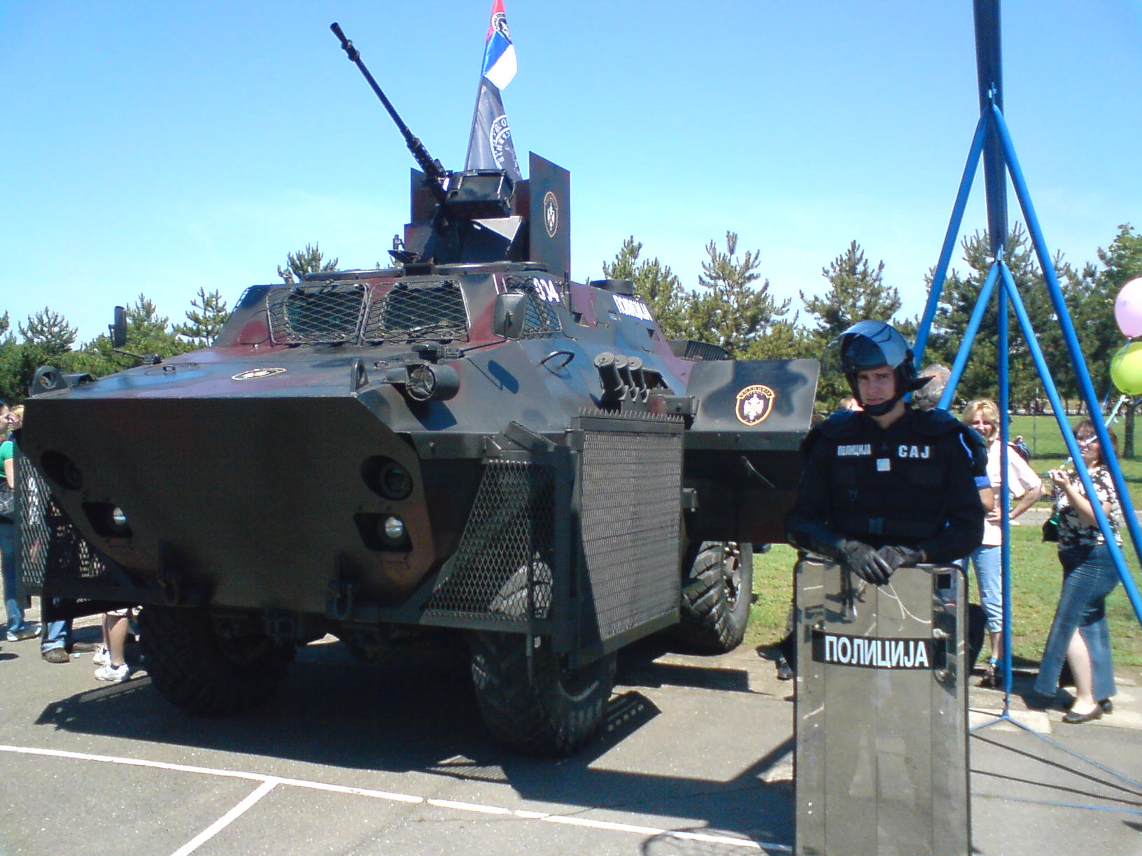 SAJ anti-riot equipment